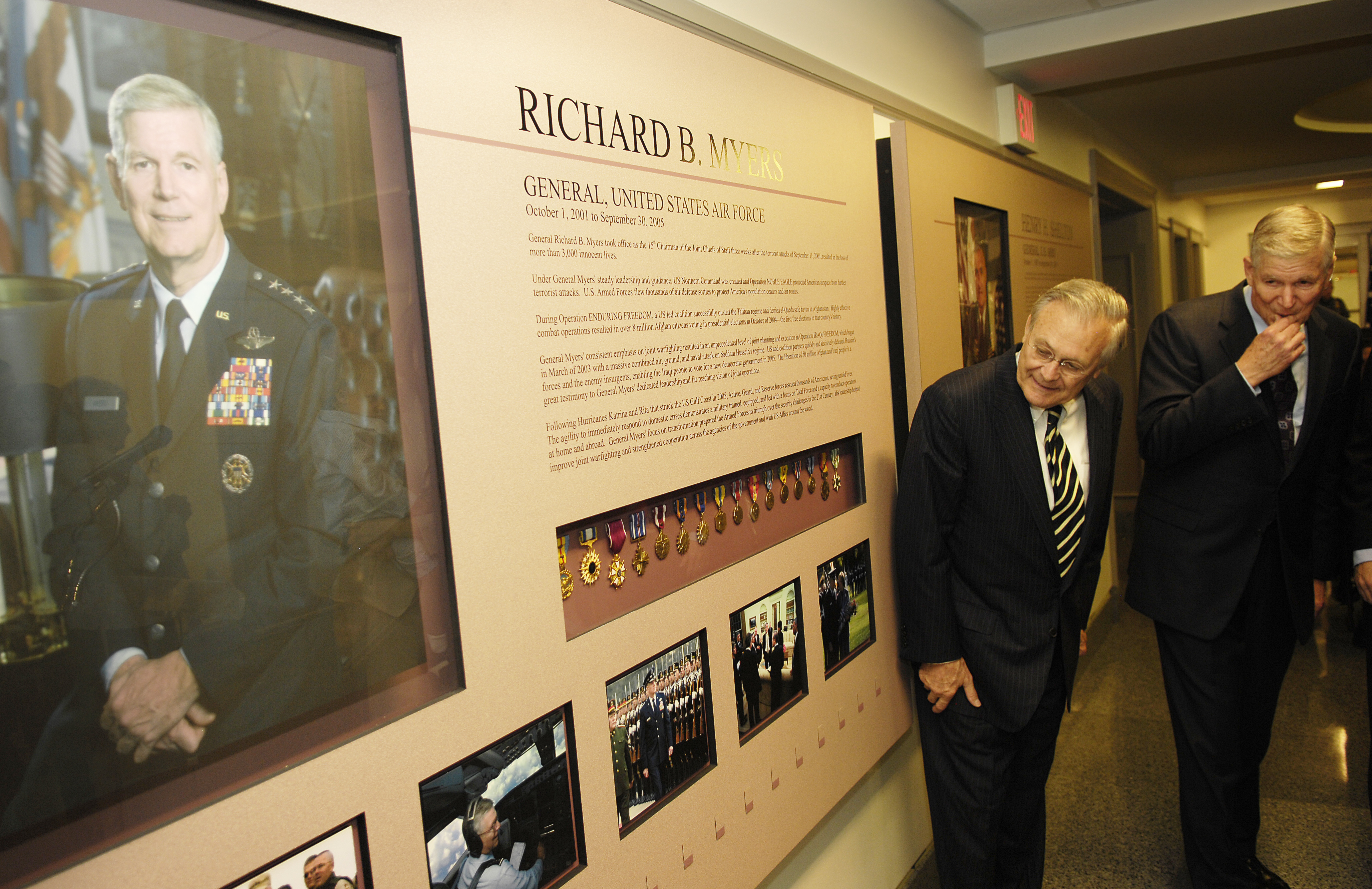 Former Defense Secretary Donald H. Rumsfeld and former Chairman of the Joint Chiefs of Staff retired U.S. Air Force Gen. Richard Myers view the general's legacy board after it was unveiled at the Pentagon, April 24, 2007.